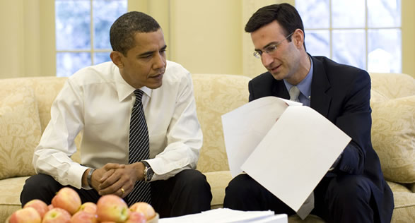 President Barack Obama and OMB director Peter Orszag.